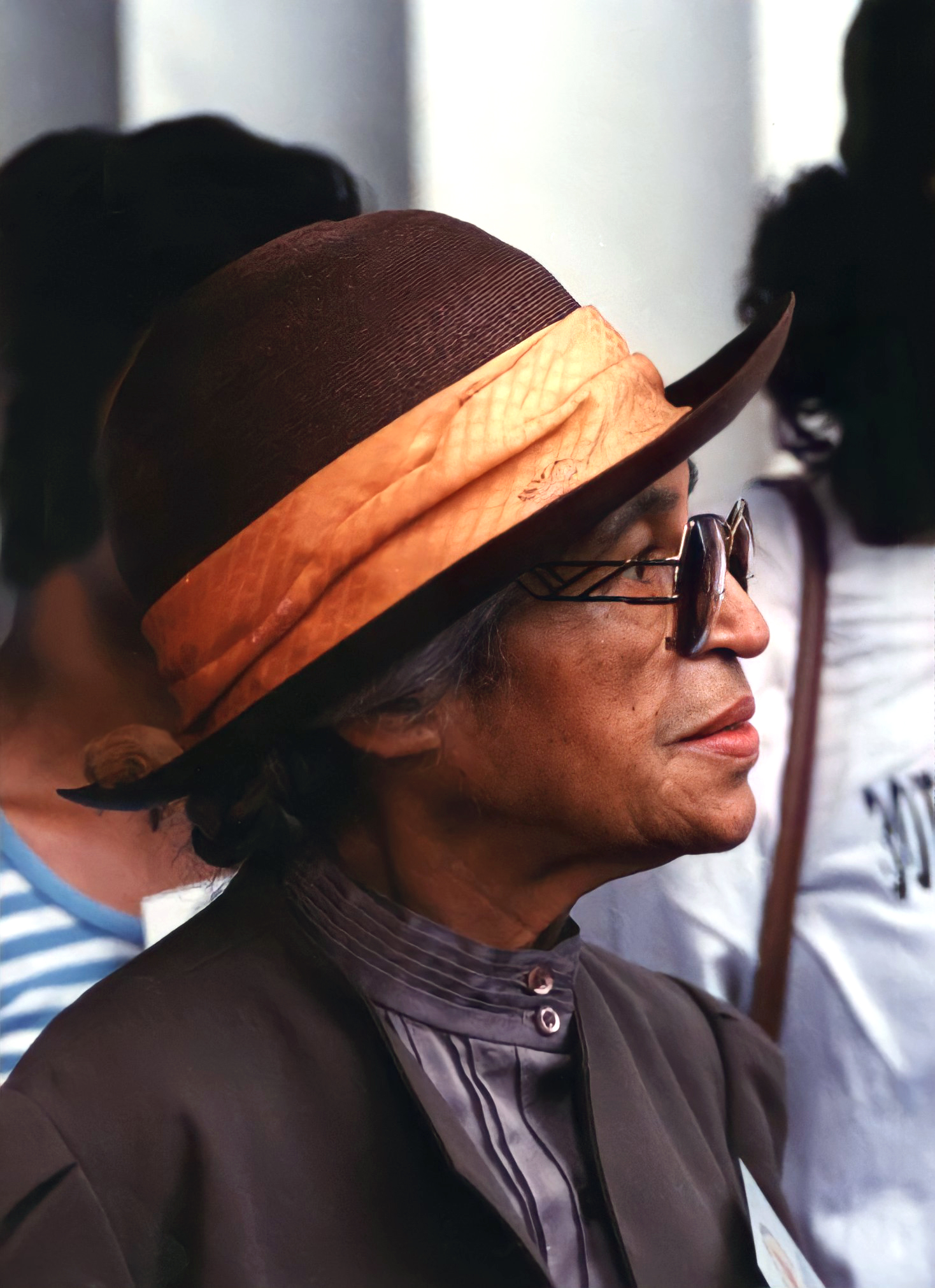 She looks out over the crowd 30 years later...as it was her simple act in defense of Human dignity that unleashed a movement From wash D.C. M.L.K. 30th anniv. © copyright John Mathew Smith